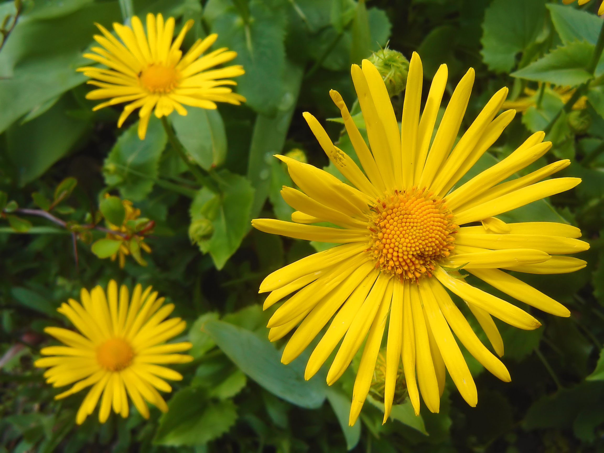 Doronicum orientale. Poland.